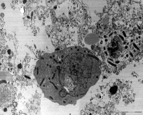 Rickettsia conorii conorii localized in cytoplasm of host cells as seen by electron microscopy (magnification ×100,000).